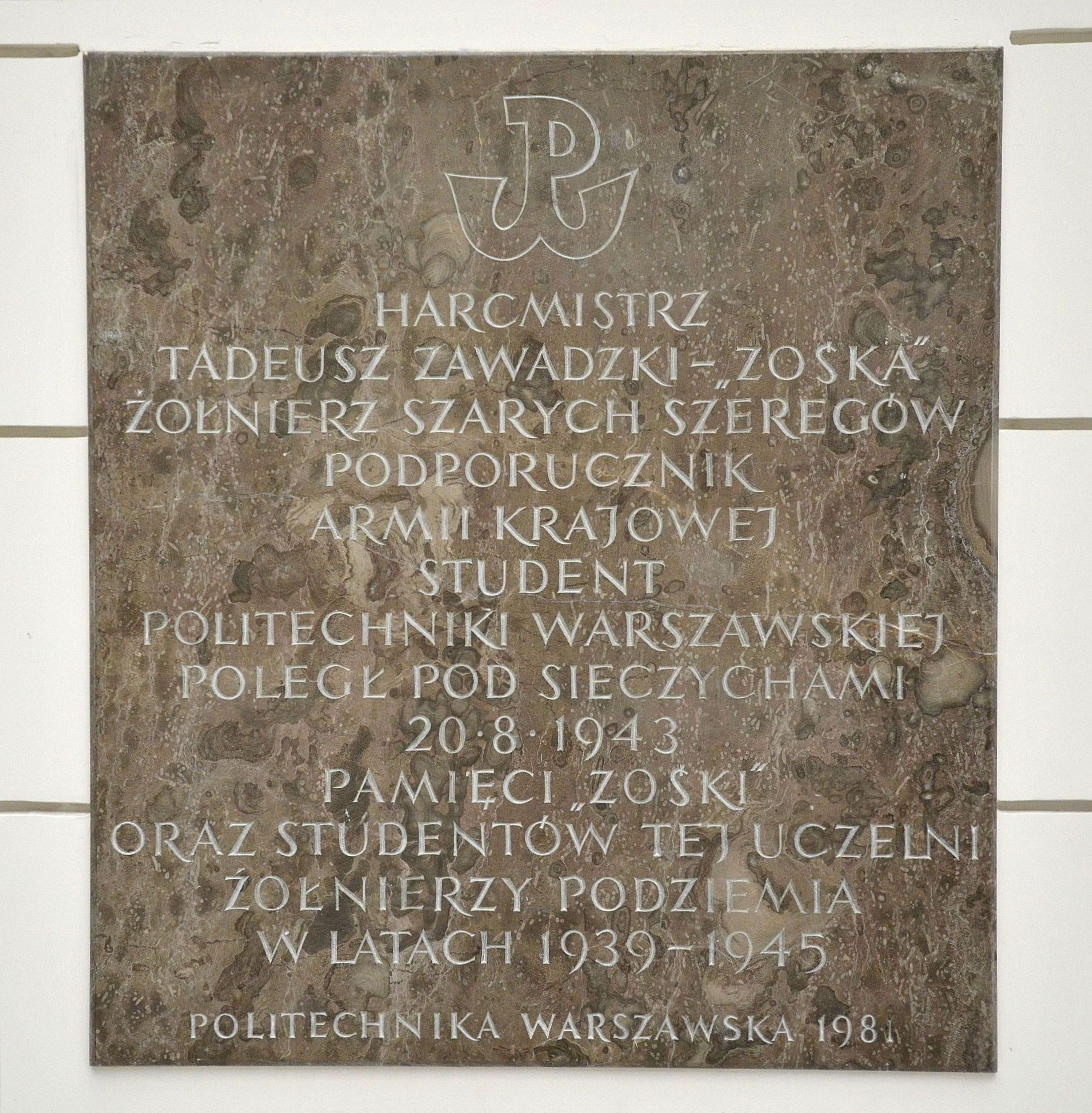 Plaque in memory of Tadeusz Zawadzki "Zośka" in the main auditorium in main builiding of of the Warsaw University of Technology.